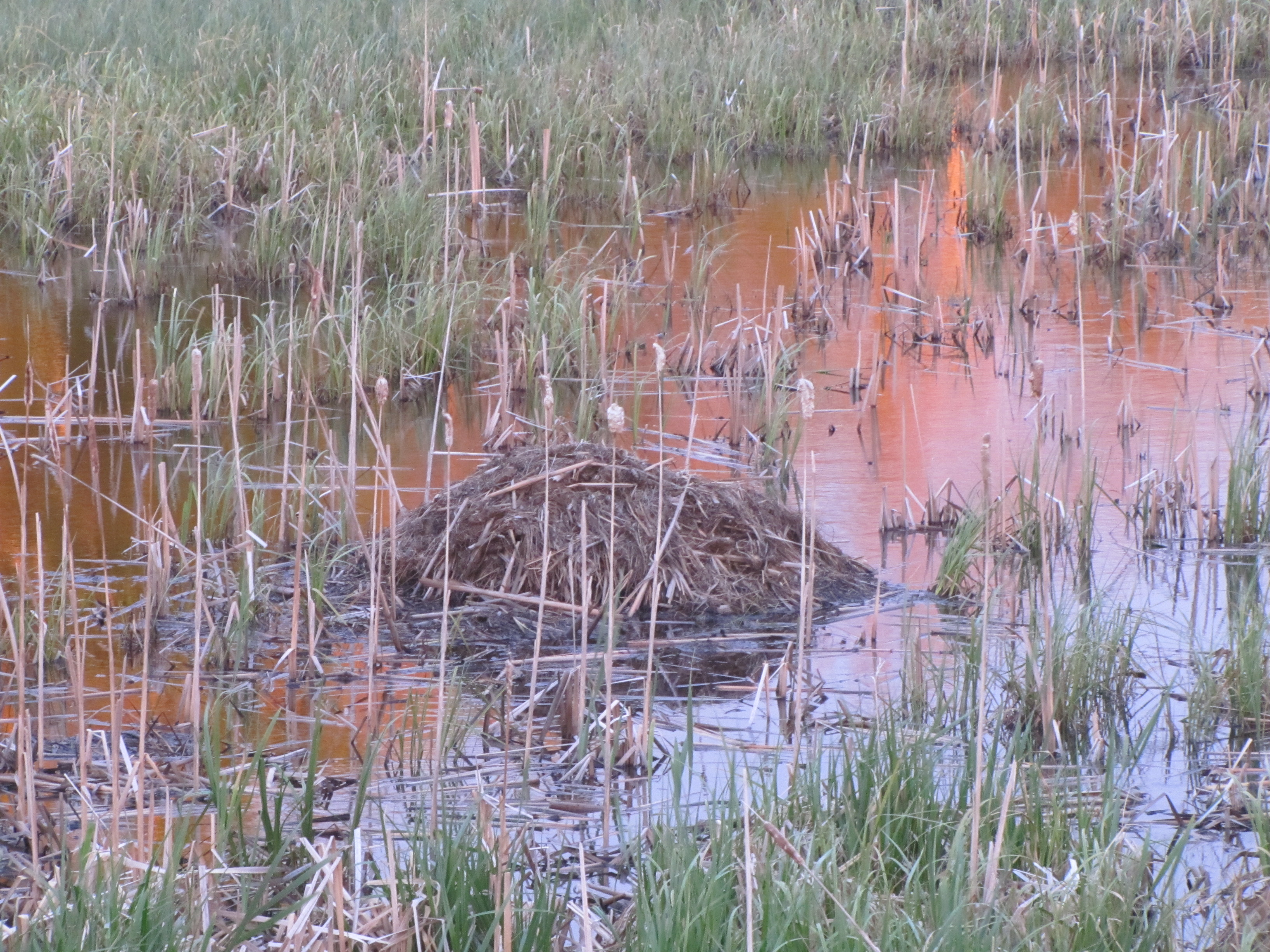 A muskrat lodge on a Seney Refuge Pool. Muskrats use cattails, reeds, and other soft vegetation to build their lodges, unlike the beaver which uses woody vegetation. June 2011 Photo Credit: Mandy Salminen USFWS